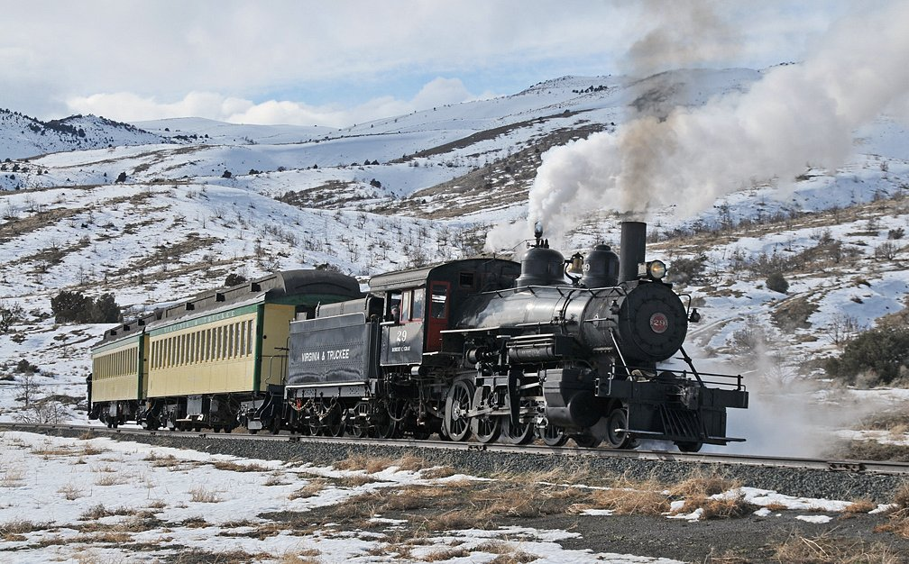 V&T #29 Climbing out of Mound House, Nevada March 2nd, 2011. Certain other establishments common to Nevada are down the hill to the left.